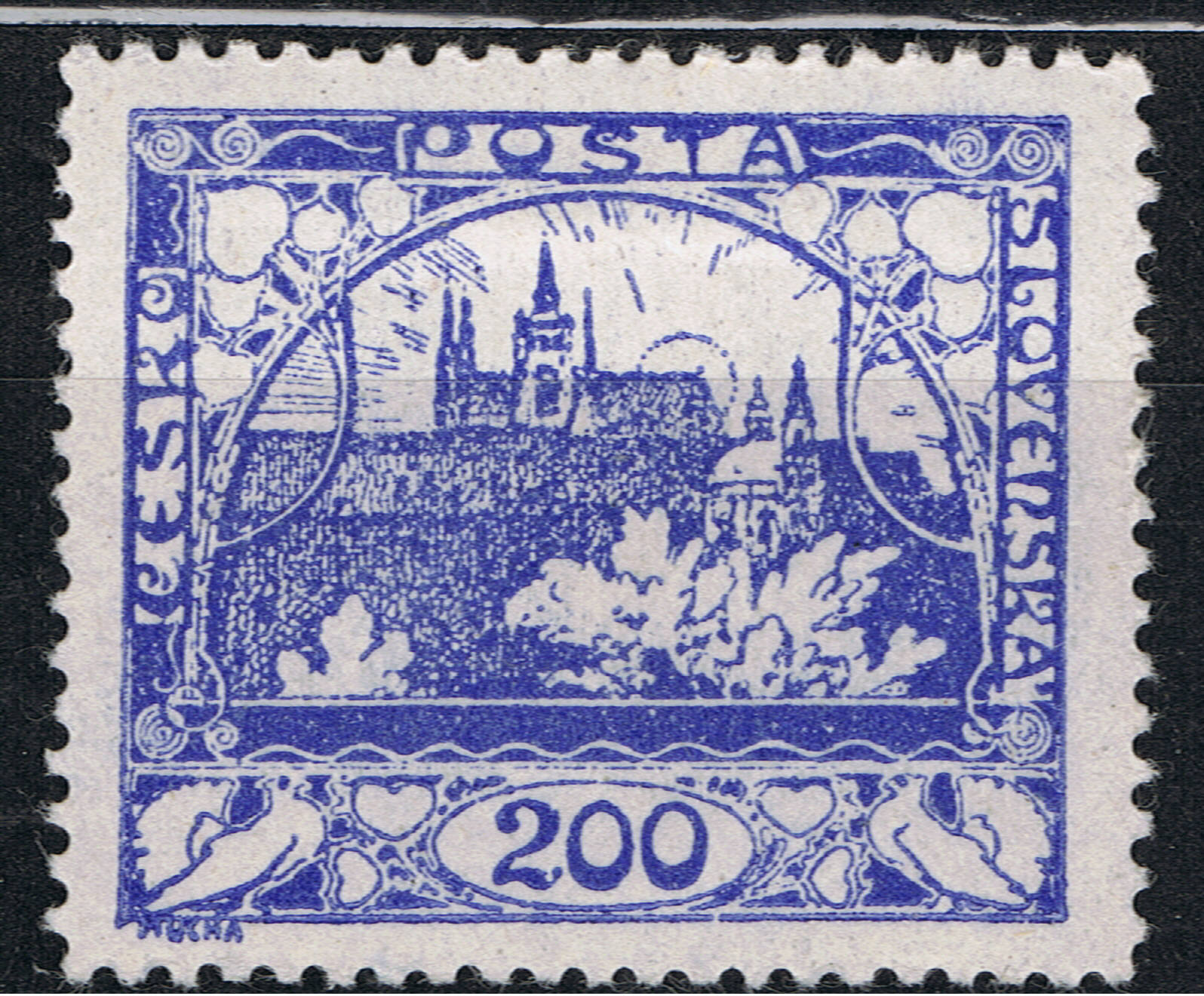 Czechoslovak postage stamp, 1918/1919, Mi. 9